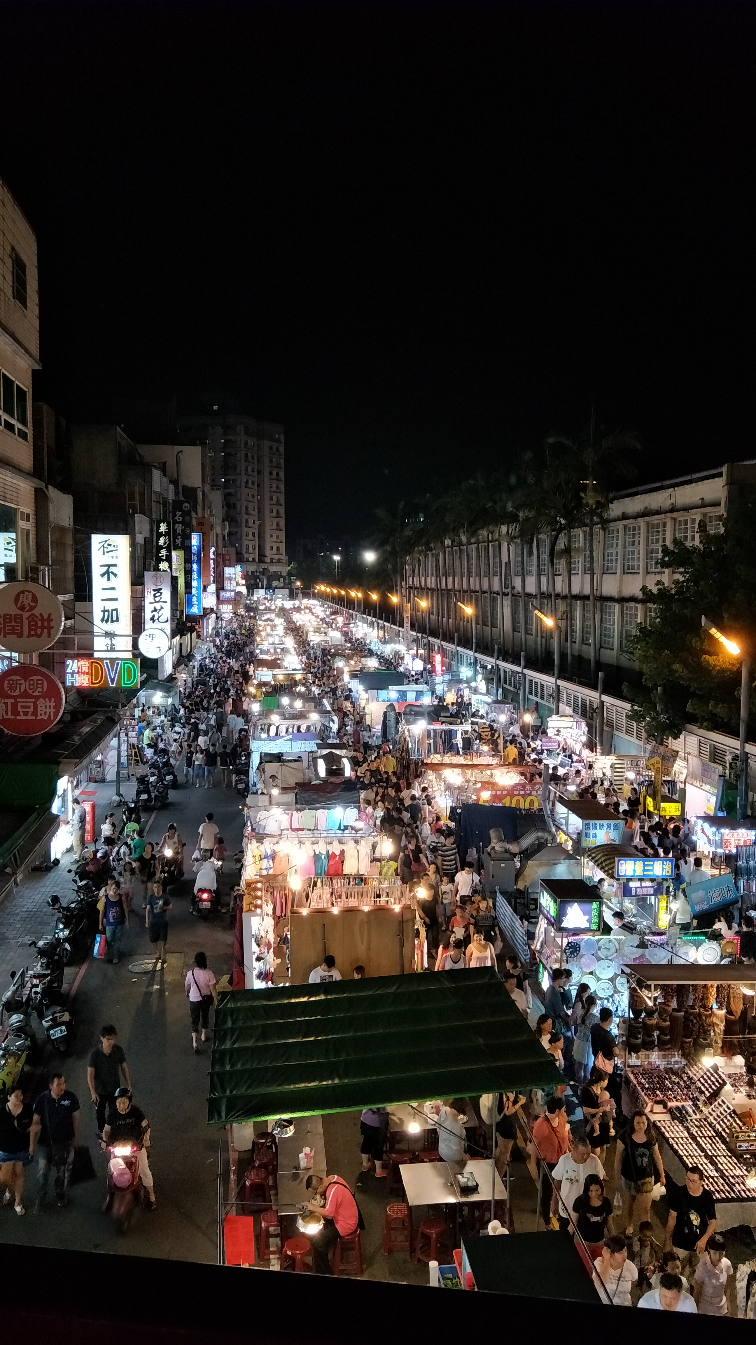 Zhongli Night Marktet from pedestrian overpass at Xinming Rd.